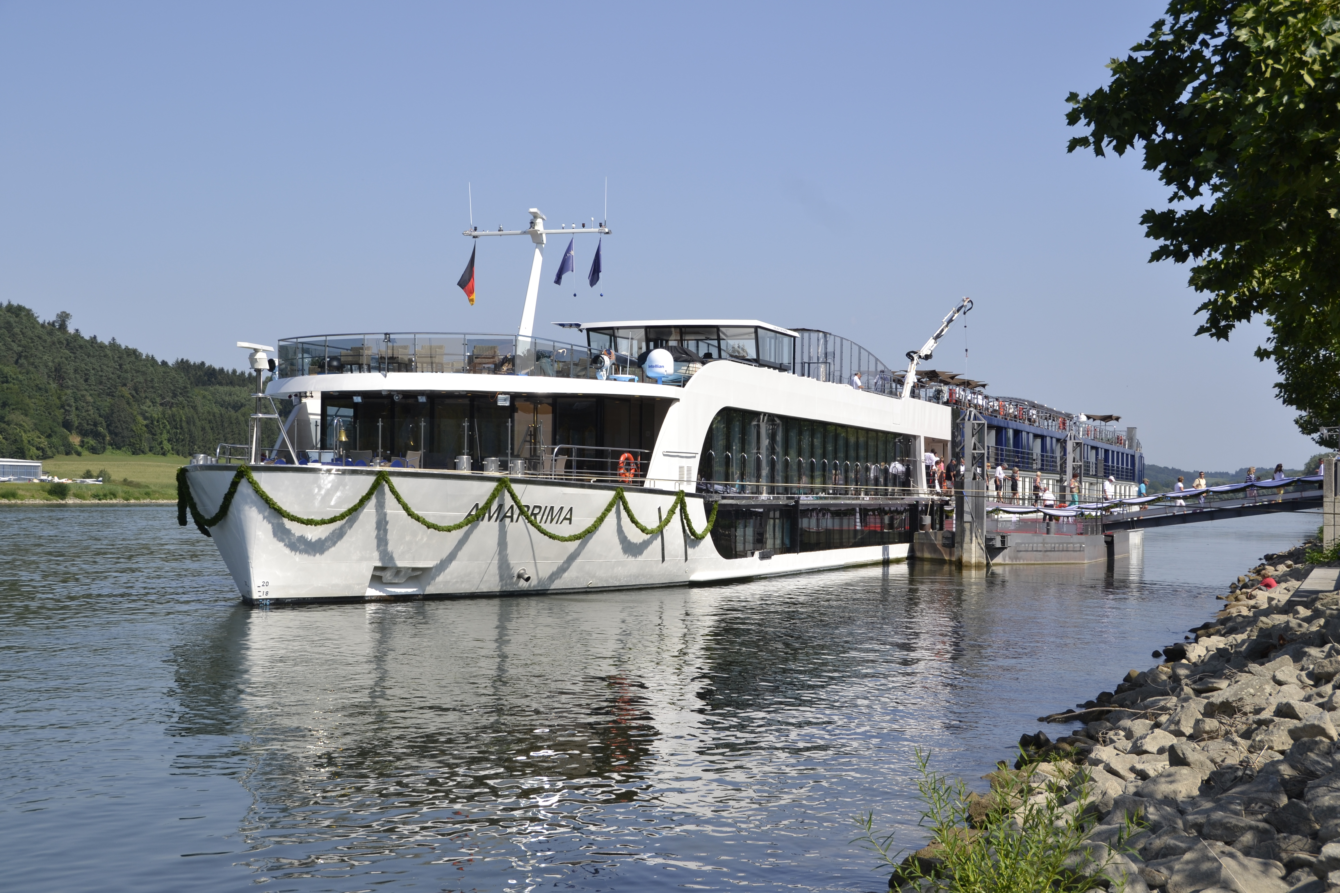 The AmaWaterways river cruise ship AmaPrima in Vilshofen an der Donau. The ship had its christening here.